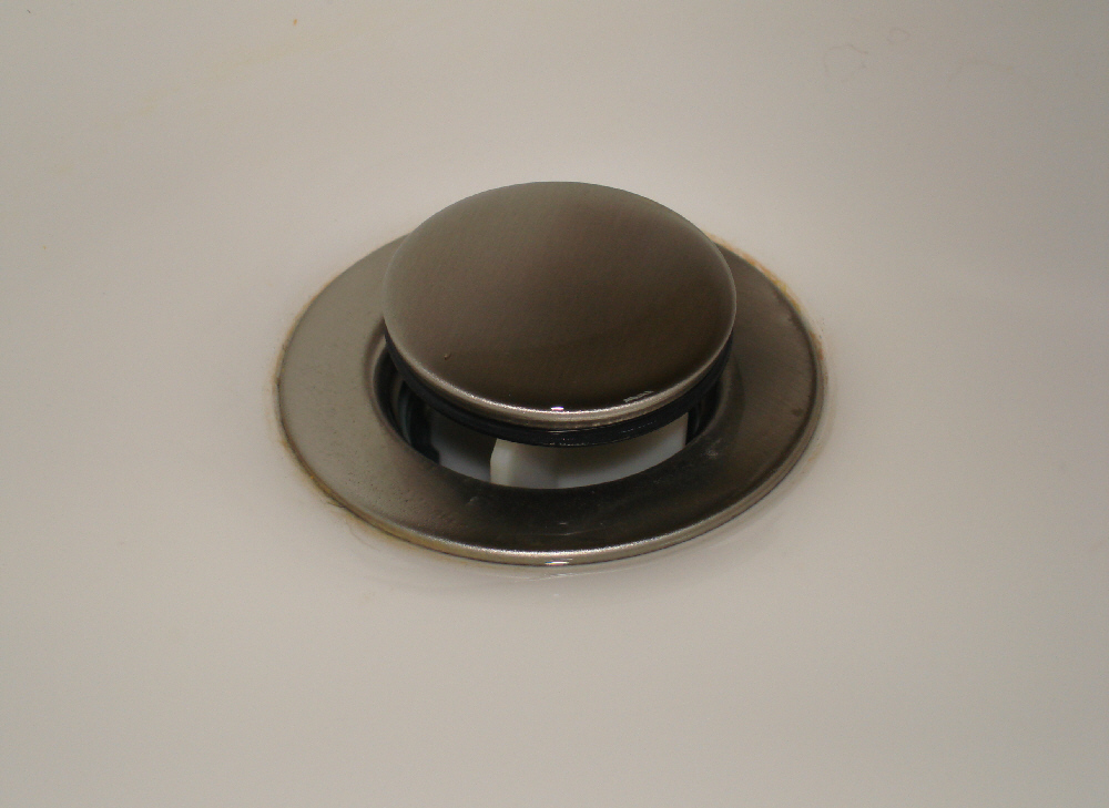 Bathroom sink drain